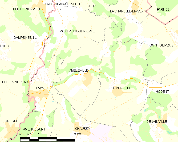 Map of French municipality Ambleville